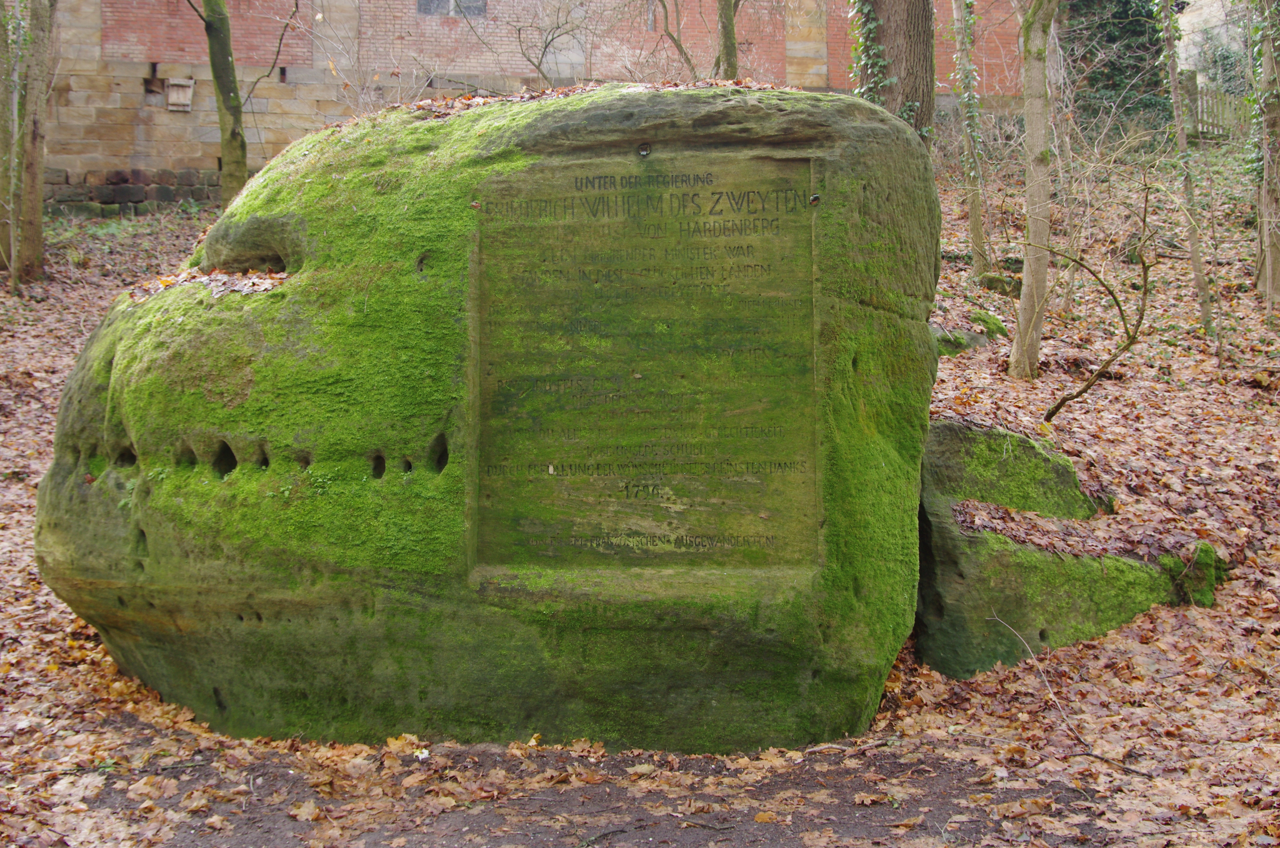 The Emigrantenstein (emigrant stone) near Eckersdorf, Landkreis Bayreuth, Bavaria, Germany, is a sandstone block of the Black Jurassic. The inscription (see below) remembers French emigrants that found a new home in the region. It is listed in the geotope cadastre of Bavaria (#472R031) and an official Baudenkmal (architectural monument, #D-4-72-131-14). Unter der RegierungFriedrich Wilhelm des ZweytenDa Carl August von HardenbergDirigierender Minister war,Fanden in diesen glücklichen LandenTausende eine FreystätteDie auswärts den WanderstabHaben ergreifen müssen.Und Menschenliebe, Wohlthätigkeit und EdelmuthDie noch mehr verscheucht warenZogen sich in das Herz dieses Monarchen zurück.Rufe du Fels den kommenden JahrhundertenDiese denkwürdige ZeitIns Gedächtnis zurück.Und die alles belohnende ewige GerechtigkeitLöse unsere SchuldDurch Erfüllung der WünscheUnseres reinsten Danks.1796Von einem französischen Ausgewanderten